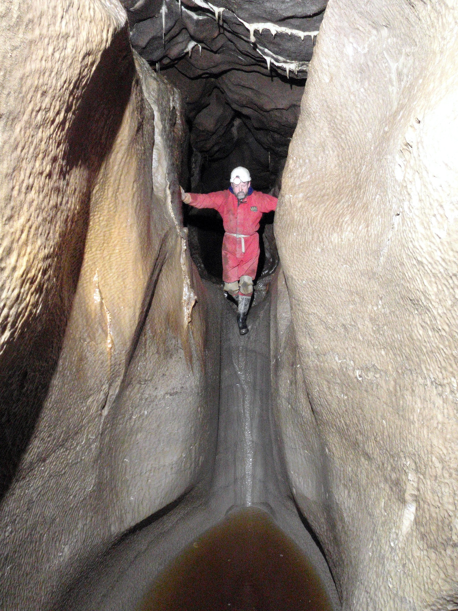 A caver in Wilf Waylor's Passage, Lancaster Hole, in Cumbria, England.